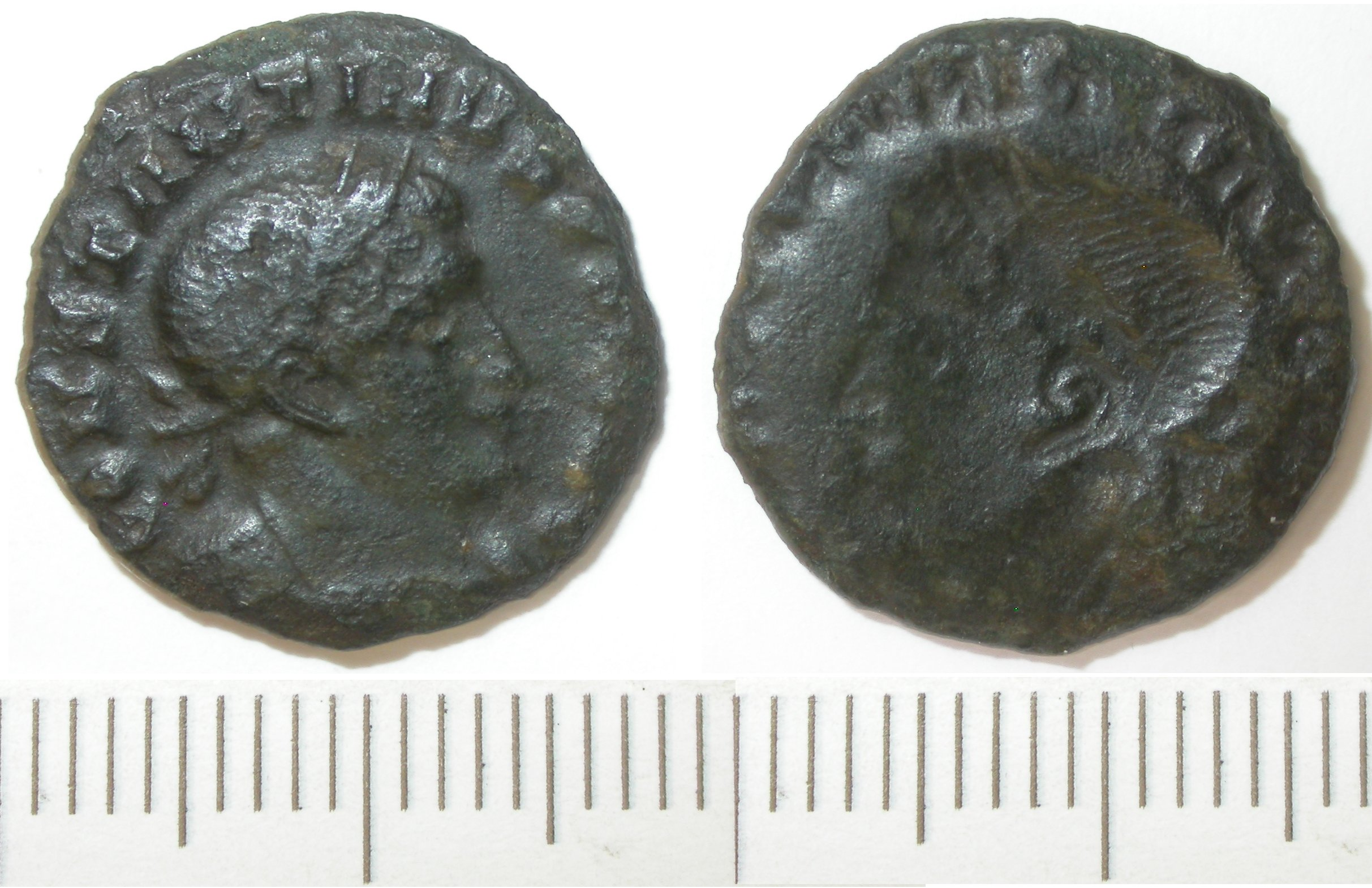 Roman mis-struck coin; obverse brockage of a struck copper alloy nummus of Constantine II, dating from the period 317-340. A ‘brockage’ occurs when a coin becomes stuck to one of the coin dies and is not removed before the next coin is struck. The second coin therefore has one normal face (struck against the clear die) and one face which has been struck against the first coin instead of the die. This leads to an inverse image of the first coin instead of the normal image of the die. This particular coin is an obverse brockage, meaning that it has its normal obverse (struck against the normal obverse die) on one face and a concave image of the same obverse (struck against the obverse of the stuck coin) on the other face. Obv. Laureate and cuirassed bust of emperor facing right CONSTANTINVS I[VN N C] Rev. Incuse and reversed copy of the obverse of the coin Reversed inscription of the obverse of the coin Diameter 17.6mm, thickness 2.2mm, weight 2.26g Ref: Reece and James, pages 32 and 33, obverse 81